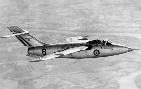 A SNCASE S.E.5000 Baroudeur in flight. The Baroudeur was a lightweight fighter by Sud-Est for the NATO "Light Weight Strike Fighter" competition, and should operate from grass airfields. It used a wheeled trolley that could be used for take off from grass, and three retractable skids, the third at the tail for landing and for take off from snow or ice-covered surfaces. The first of two prototypes flew on the 1 August 1953.